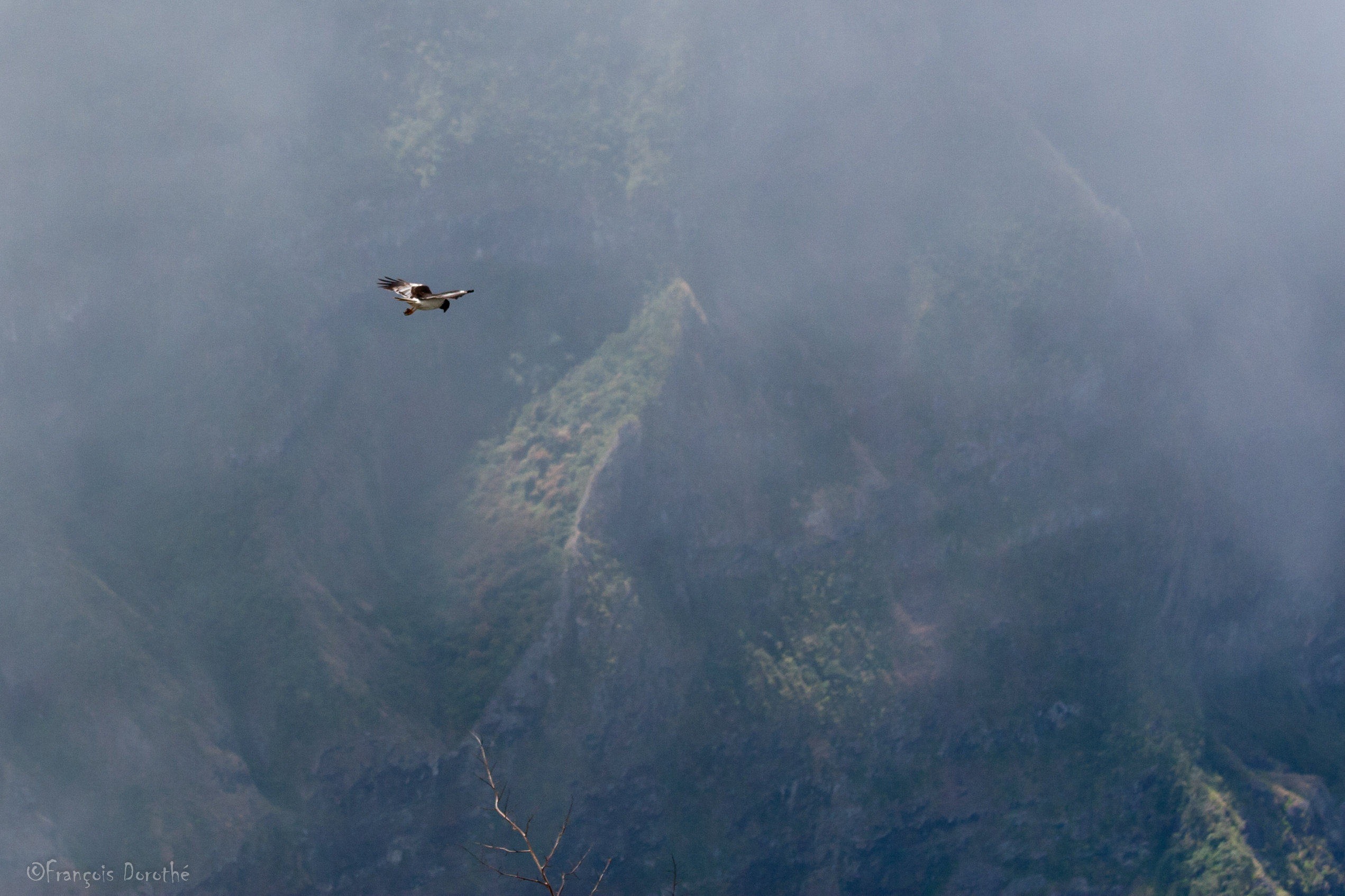 Male Réunion Harrier (Circus maillardi)